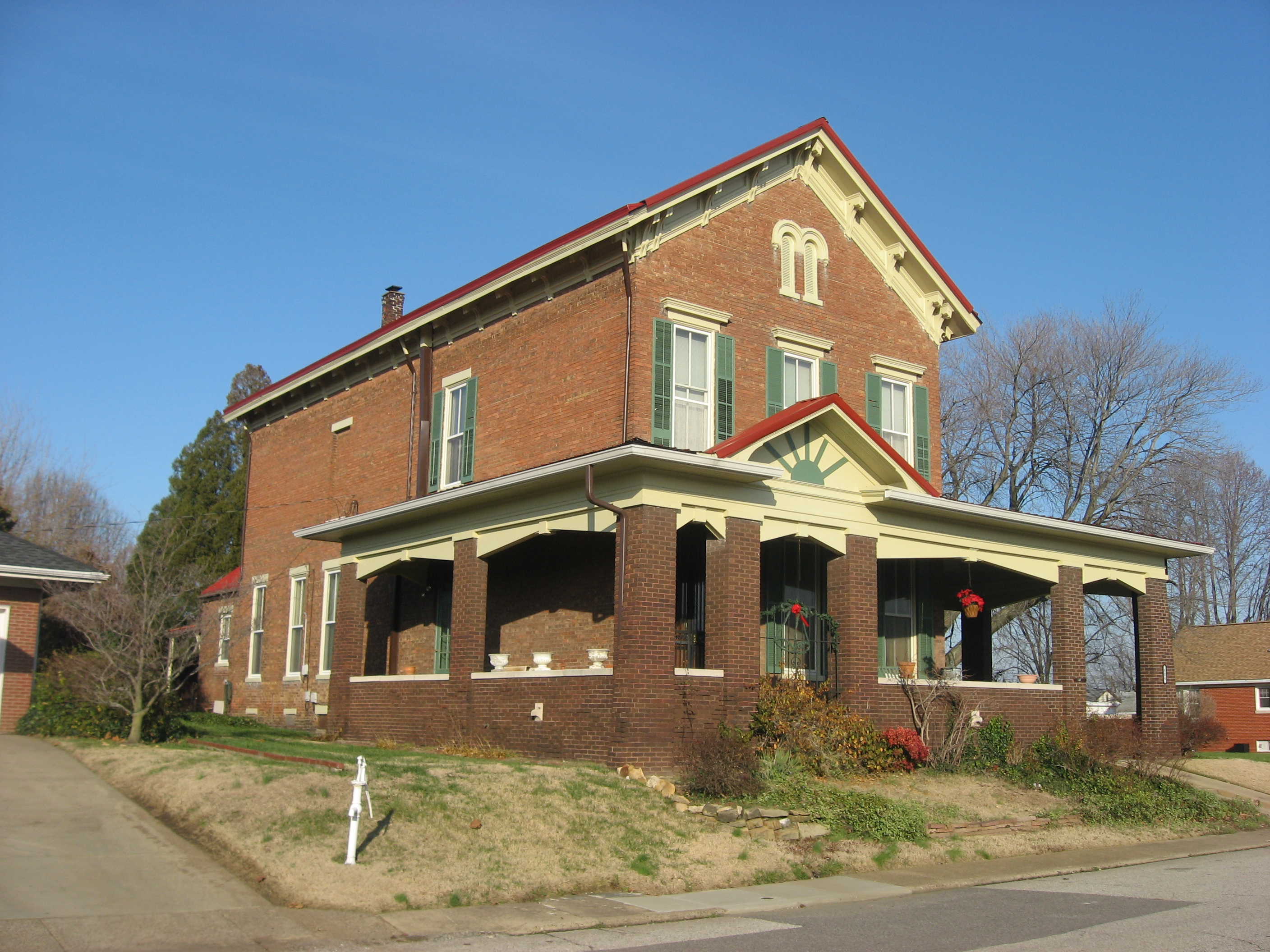 Front and western side of the Koester/Patburg House, located at 504 Herndon Drive in Evansville, Indiana, United States. Built in 1873, it is listed on the National Register of Historic Places.